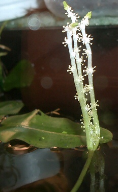 Aponogeton plant blooming in a terrarium. Photographed by Erik de Neve, February 2006, specifically for Wikipedia.